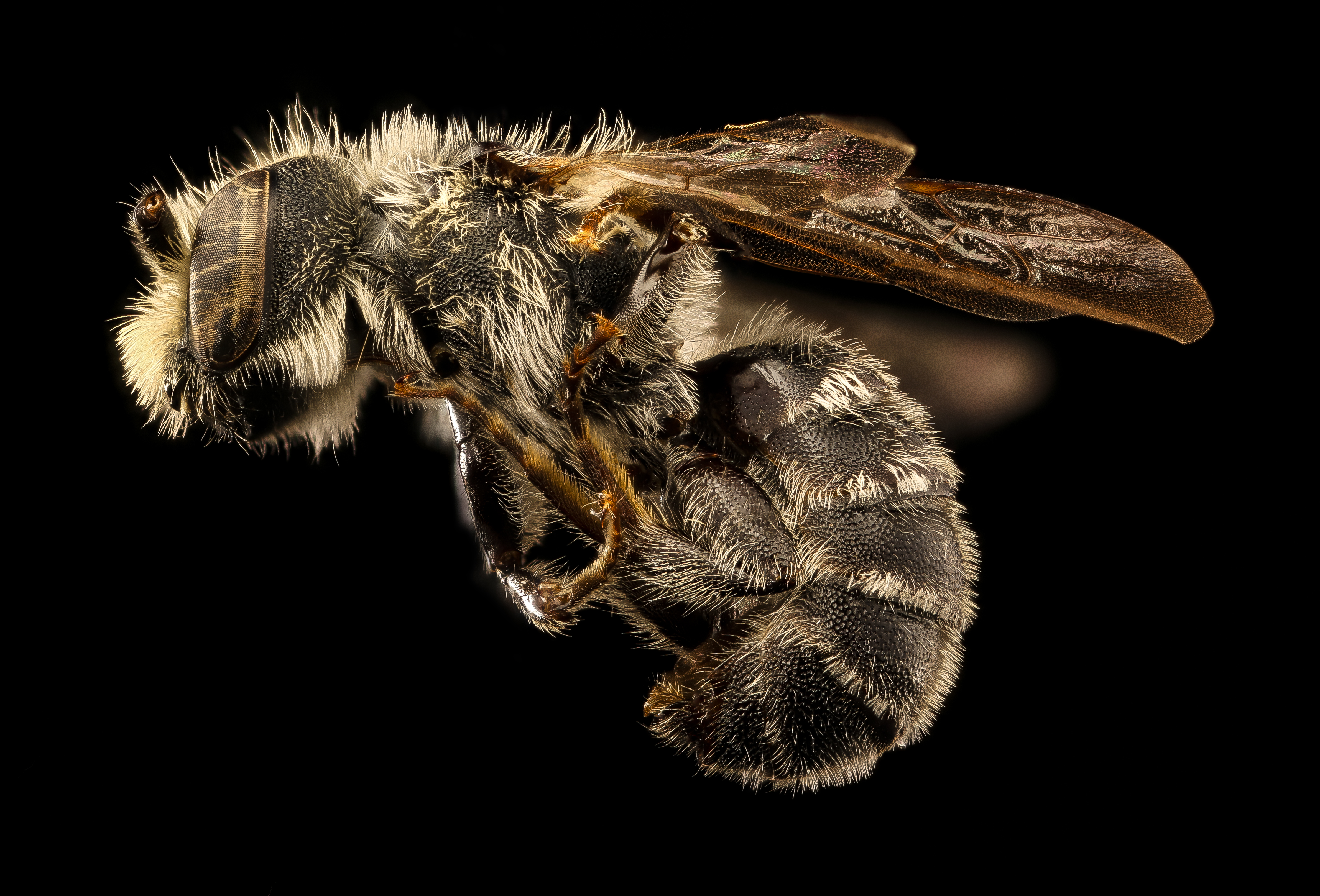 Hoplitis truncata. An uncommon Hoplitis that shows up here and there, but never in large numbers. Not well known and its roll and preferences in the world of flowers is also unclear. This is a rather ratty male I collected somewhere near home...will have to keep my eyes open for additional specimens. Notice the little pointed tip on the ends of the antennae...something that a few Hoplitis share in their males. Why? Photography by Sydney Price 00:47, 1 July 2017 (UTC)00:47, 1 July 2017 (UTC) 0 00:47, 1 July 2017 (UTC)00:47, 1 July 2017 (UTC) All photographs are public domain, feel free to download and use as you wish. Photography Information: Canon Mark II 5D, Zerene Stacker, Stackshot Sled, 65mm Canon MP-E 1-5X macro lens, Twin Macro Flash in Styrofoam Cooler, F5.0, ISO 100, Shutter Speed 200 Beauty is truth, truth beauty - that is all Ye know on earth and all ye need to know " Ode on a Grecian Urn" John Keats You can also follow us on Instagram - account = USGSBIML Want some Useful Links to the Techniques We Use? Well now here you go Citizen: Art Photo Book: Bees: An Up-Close Look at Pollinators Around the World Free Field Guide to Bee Genera of Maryland Basic USGSBIML set up: USGSBIML Photoshopping Technique: Note that we now have added using the burn tool at 50% opacity set to shadows to clean up the halos that bleed into the black background from "hot" color sections of the picture. PDF of Basic USGSBIML Photography Set Up: ftp://ftpext.usgs.gov/pub/er/md/laurel/Droege/How%20to%20Take%20MacroPhotographs%20of%20Insects%20BIML%20Lab2.pdf Google Hangout Demonstration of Techniques: or Excellent Technical Form on Stacking: Contact information: Sam Droege 301 497 5840